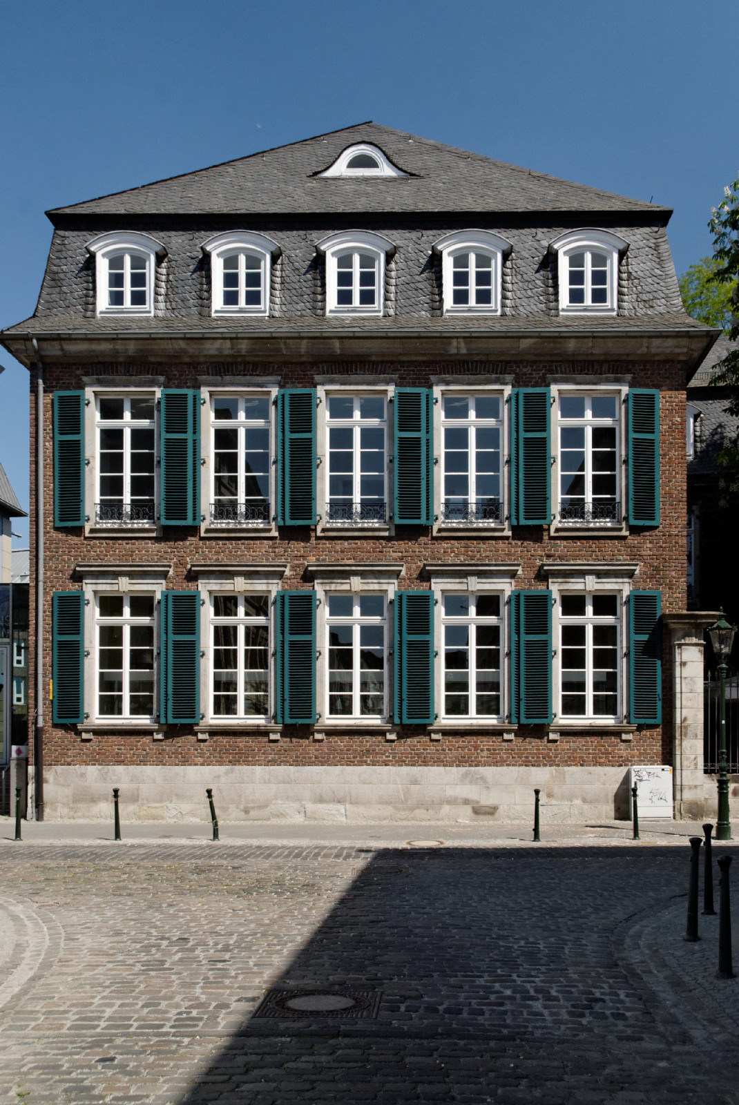 Palais Nesselrode in Düsseldorf-Carlstadt, Germany